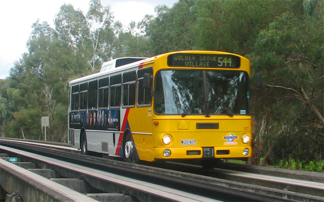 O-Bahn bus